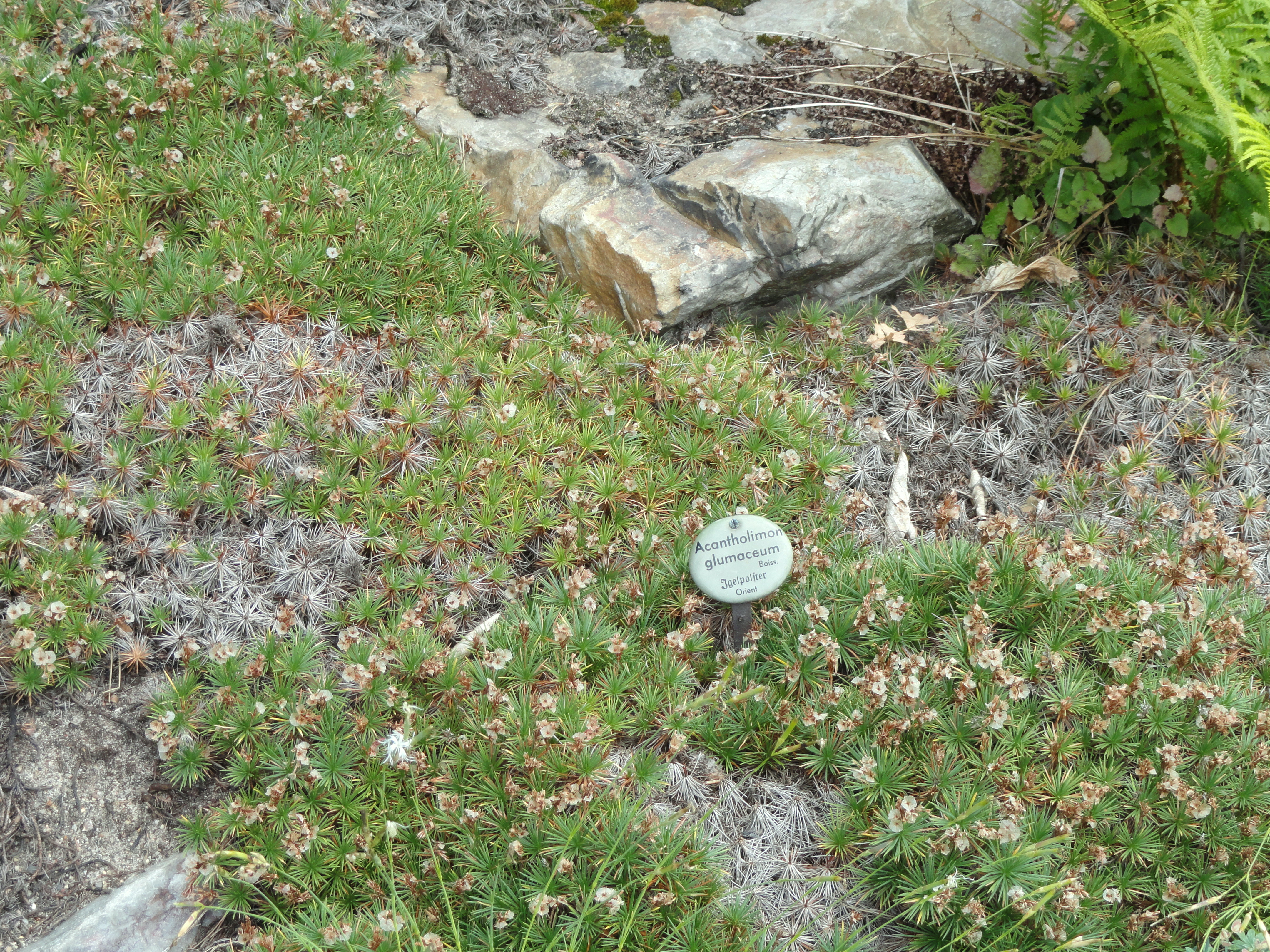 Botanical specimen in the Botanischer Garten, Frankfurt am Main, located at Siesmayerstraße 72, Frankfurt am Main, Germany.